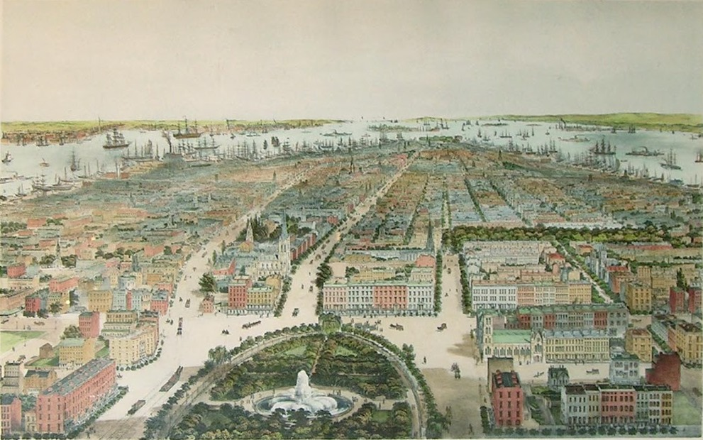 New York seen from Union Square, 1850